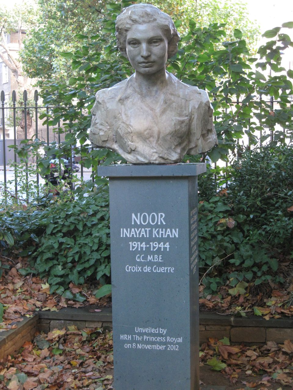 Bronze portrait bust of Noor Inayat Khan by Karen Newman. Unveiled November 2012 by Anne, Princess Royal.